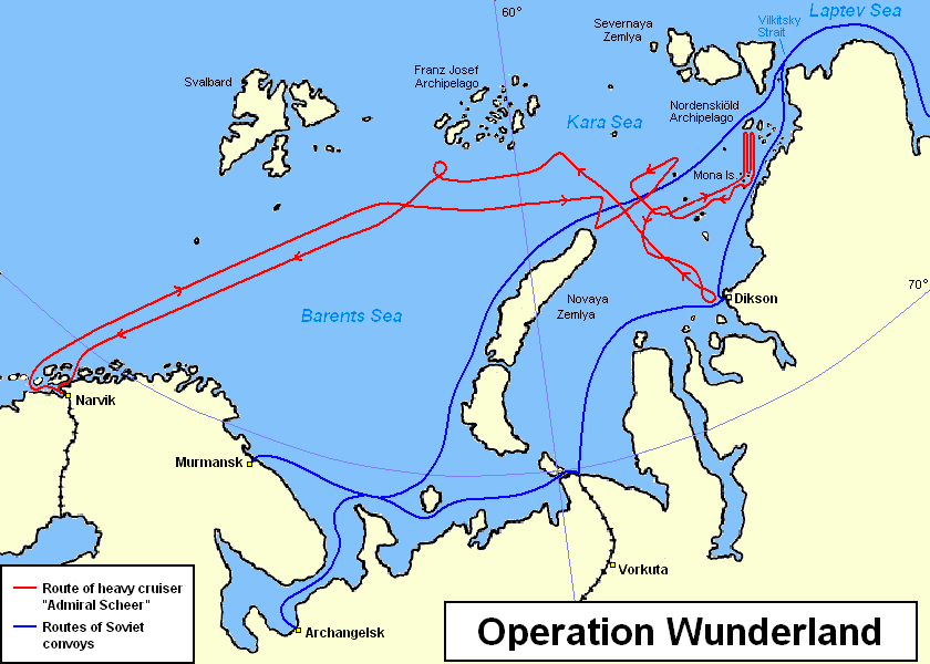 Map of German actions in the Arctic Ocean during Operation Wunderland. The red line shows the route followed by the heavy cruiser Admiral Scheer, the blue lines the routes followed by Soviet convoys